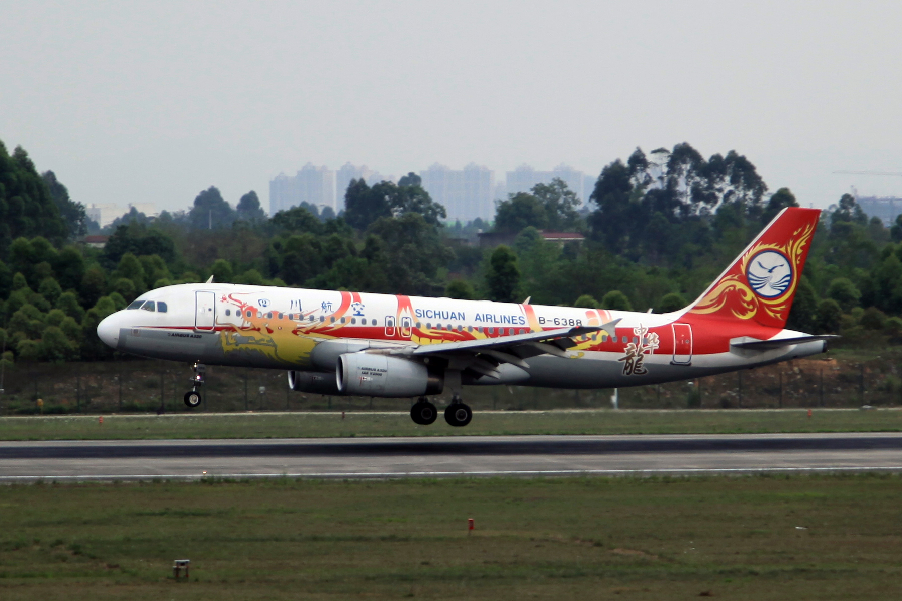 Sichuan Airlines Airbus A320-232 (Chinese Dragon Livery) B-6388 @ Chengdu Shuangliu International Airport